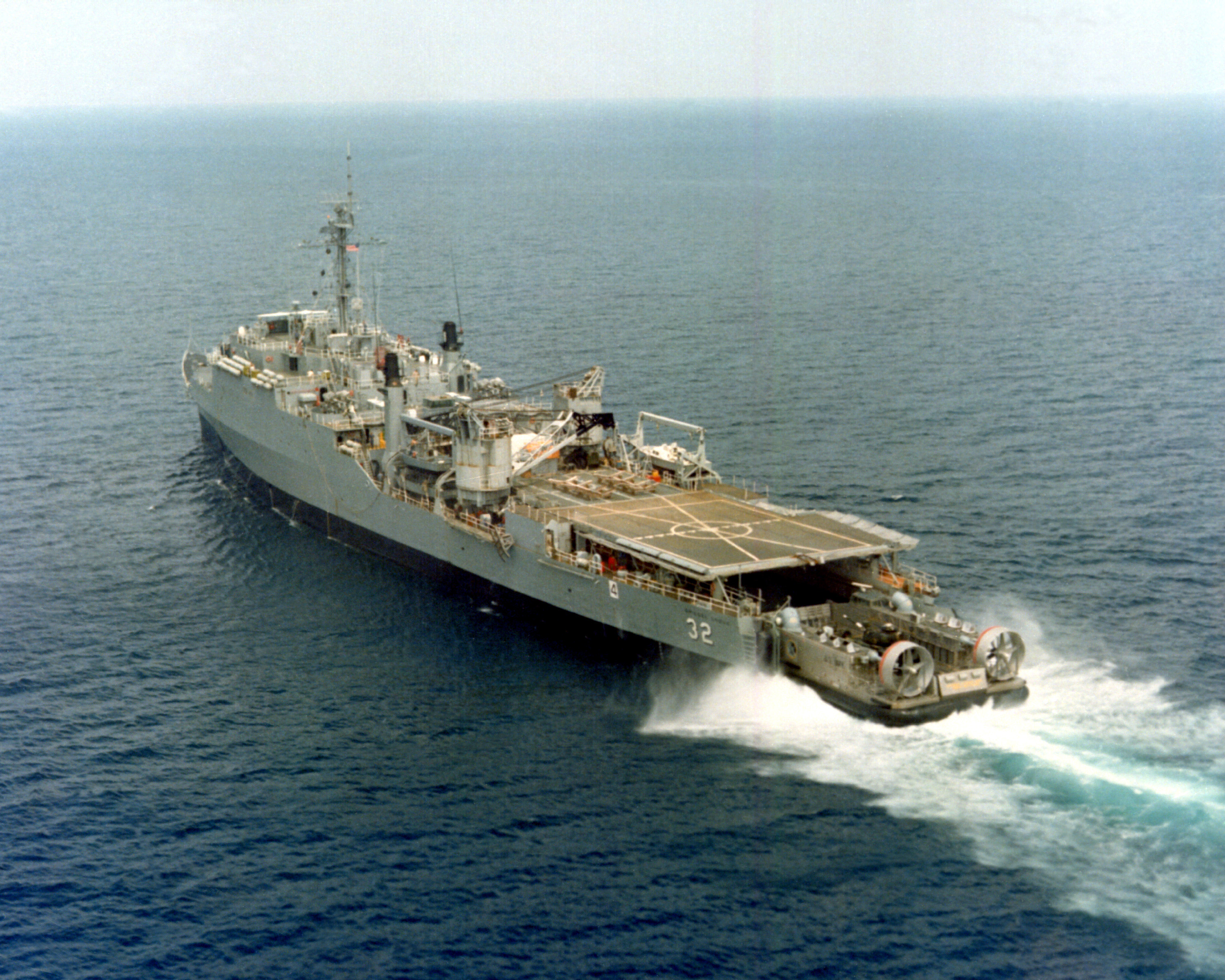 The U.S. Navy Amphibious Assault Landing Craft "Jeff-B" (AALC) enters the docking well of the dock landing ship USS Spiegel Grove (LSD-32) during operations off the coast of Florida.